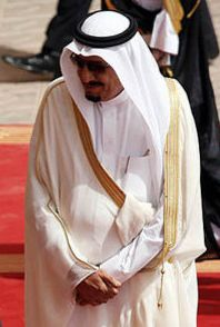 Prince Salman bin Abdulaziz